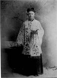 photo of Fr Scollen taken about 1880